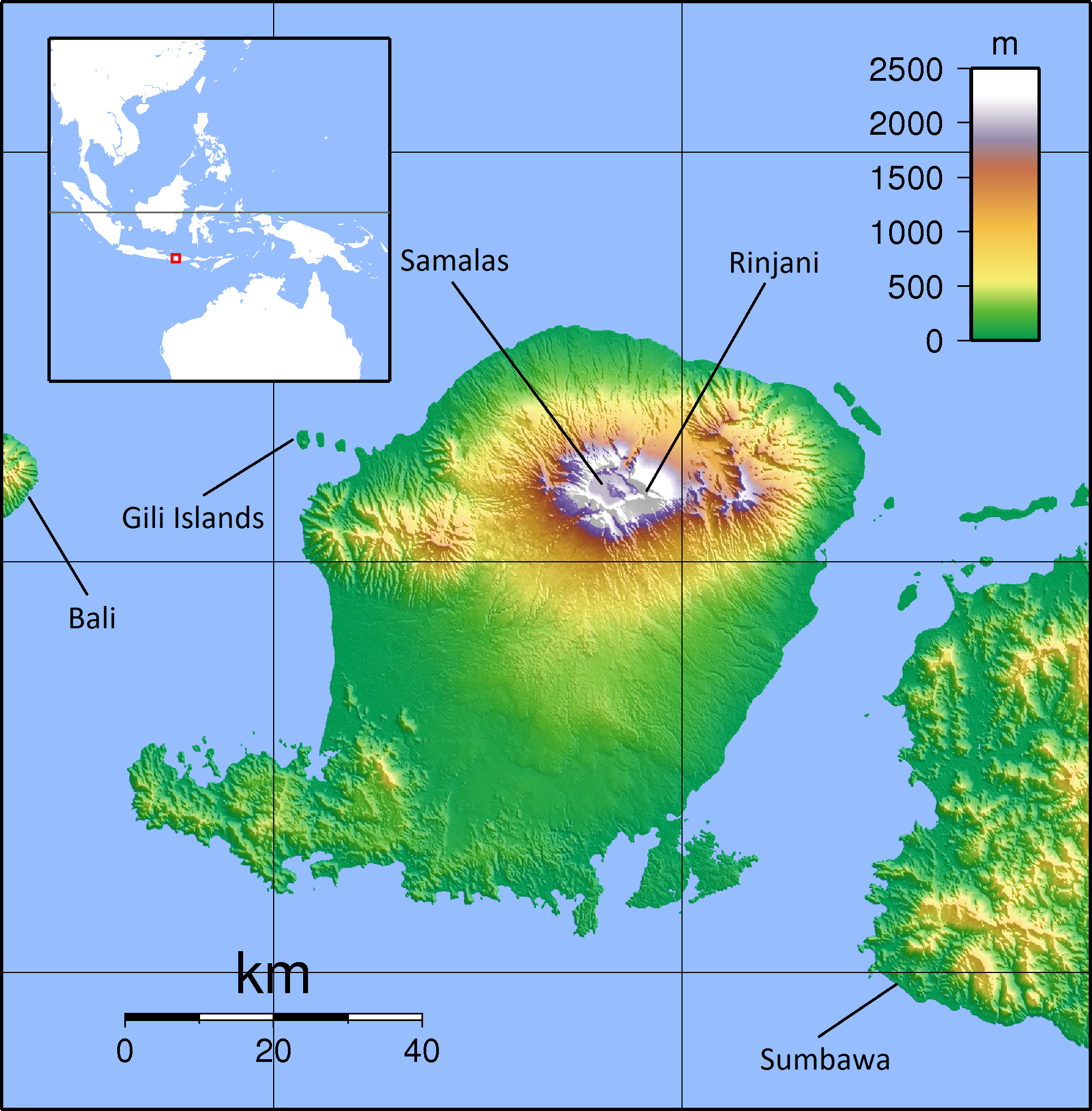 Topographic map of Lombok, Indonesia. Created with GMT from SRTM data, labels added by Jo-Jo Eumerus